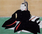 Niwa Nagayoshi, lord of the Nihonmatsu domain.